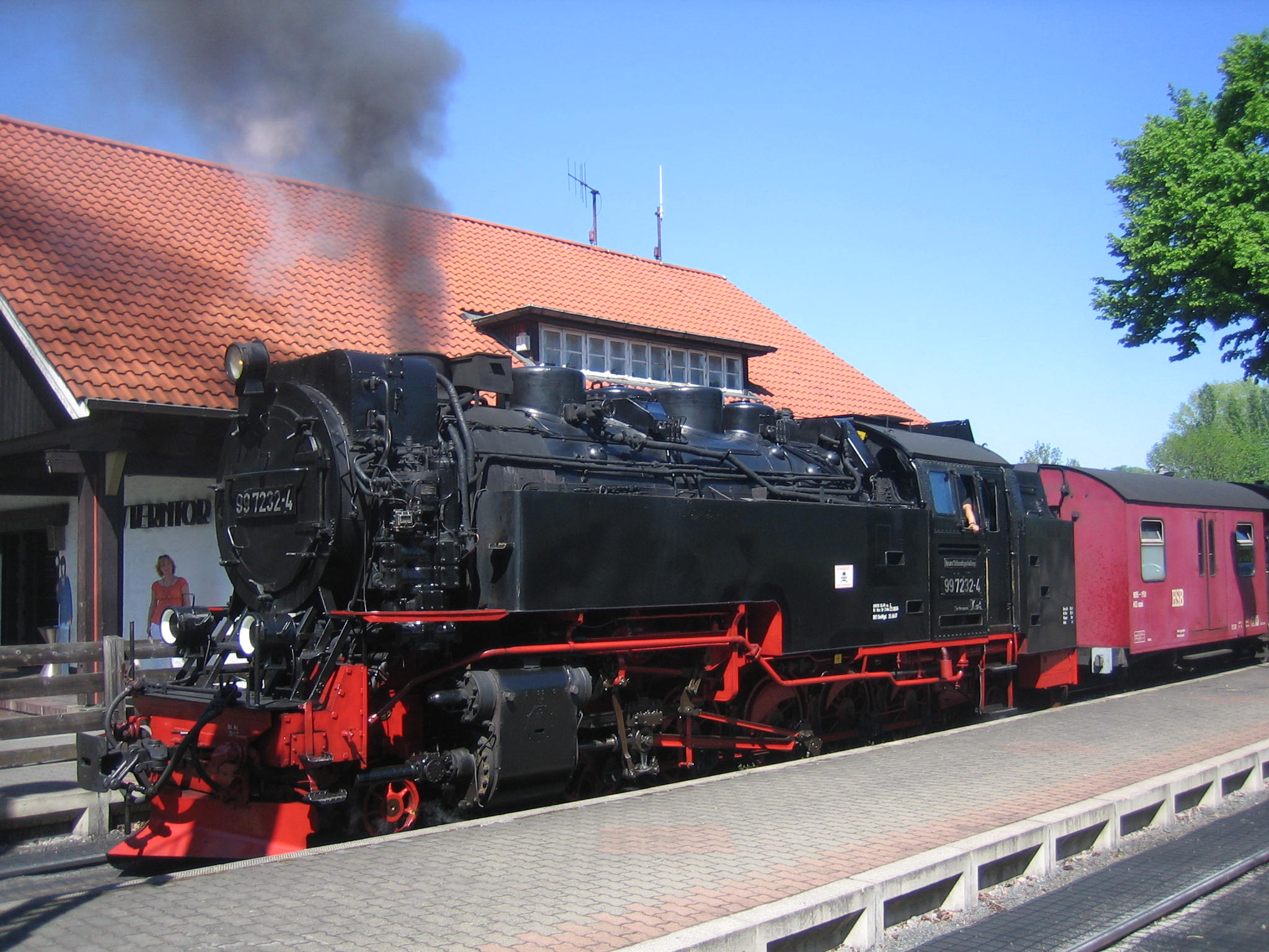 Steam locomotive 99-7232-4 at Bahnhof Wernigerode Westerntor, Germany